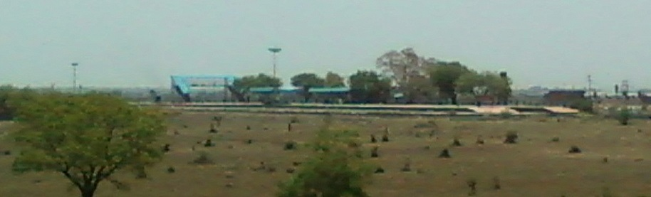 Newly Built Railway Station at Shivani, near Akola, India